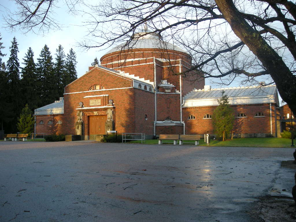 Chapel at the Malmi cemetery in Helsinki, Finland